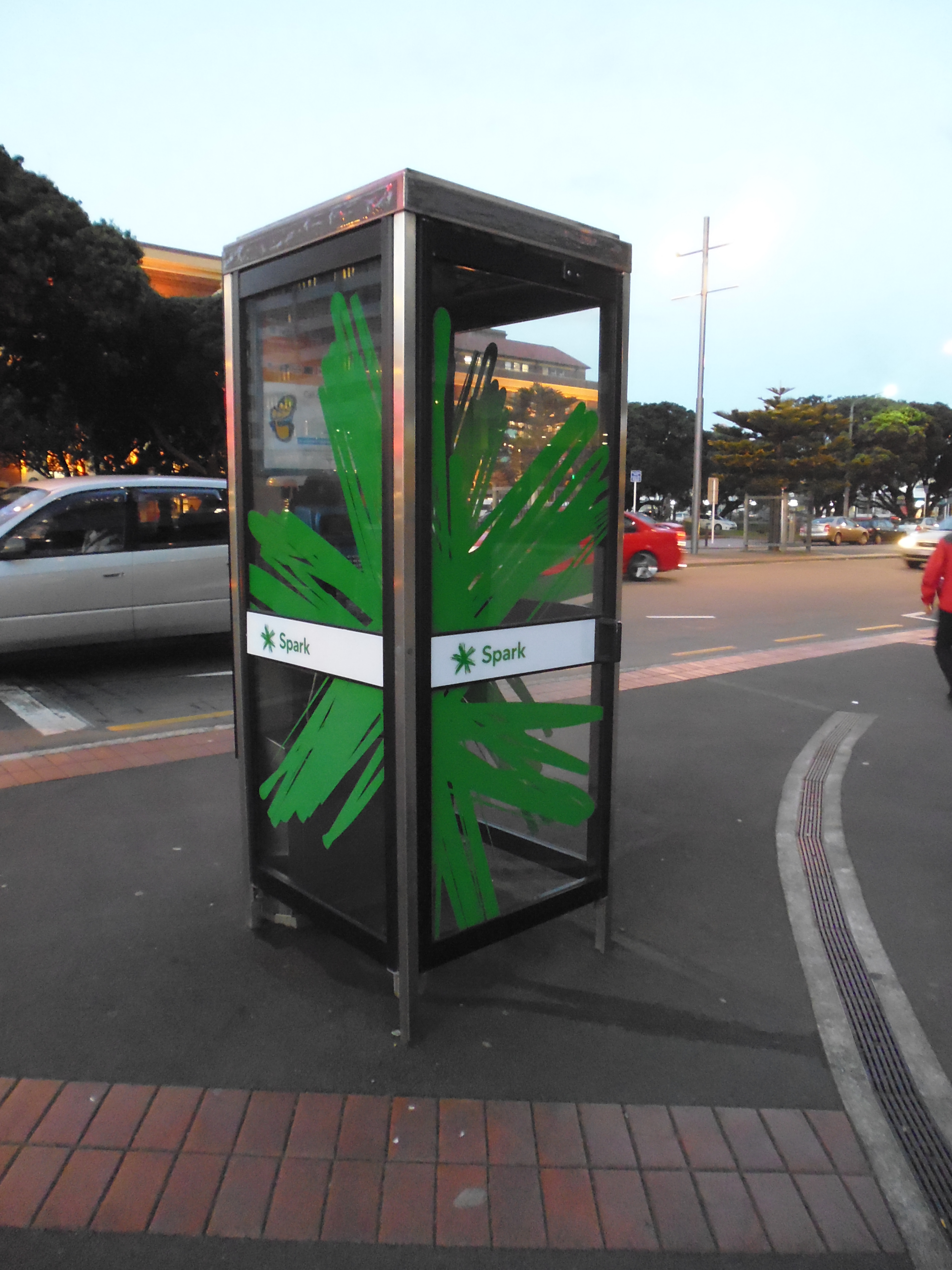 A phone booth operated by Spark in New Zealand. Spark is the company formerly known as Telecom New Zealand.